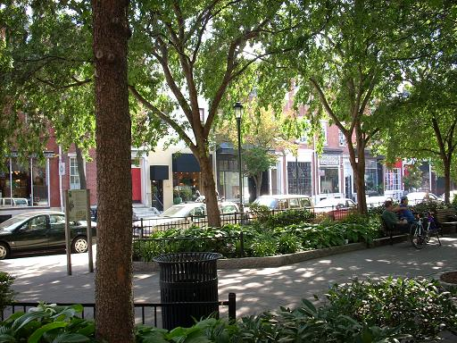 This is a picture of Antique Row in Philadelphia's Washington Square West neighborhood as seen from Kahn Park. The picture was taken by user Sbacle in August of 2007 for the Washington Square West article. Category:Images of Philadelphia, Pennsylvania